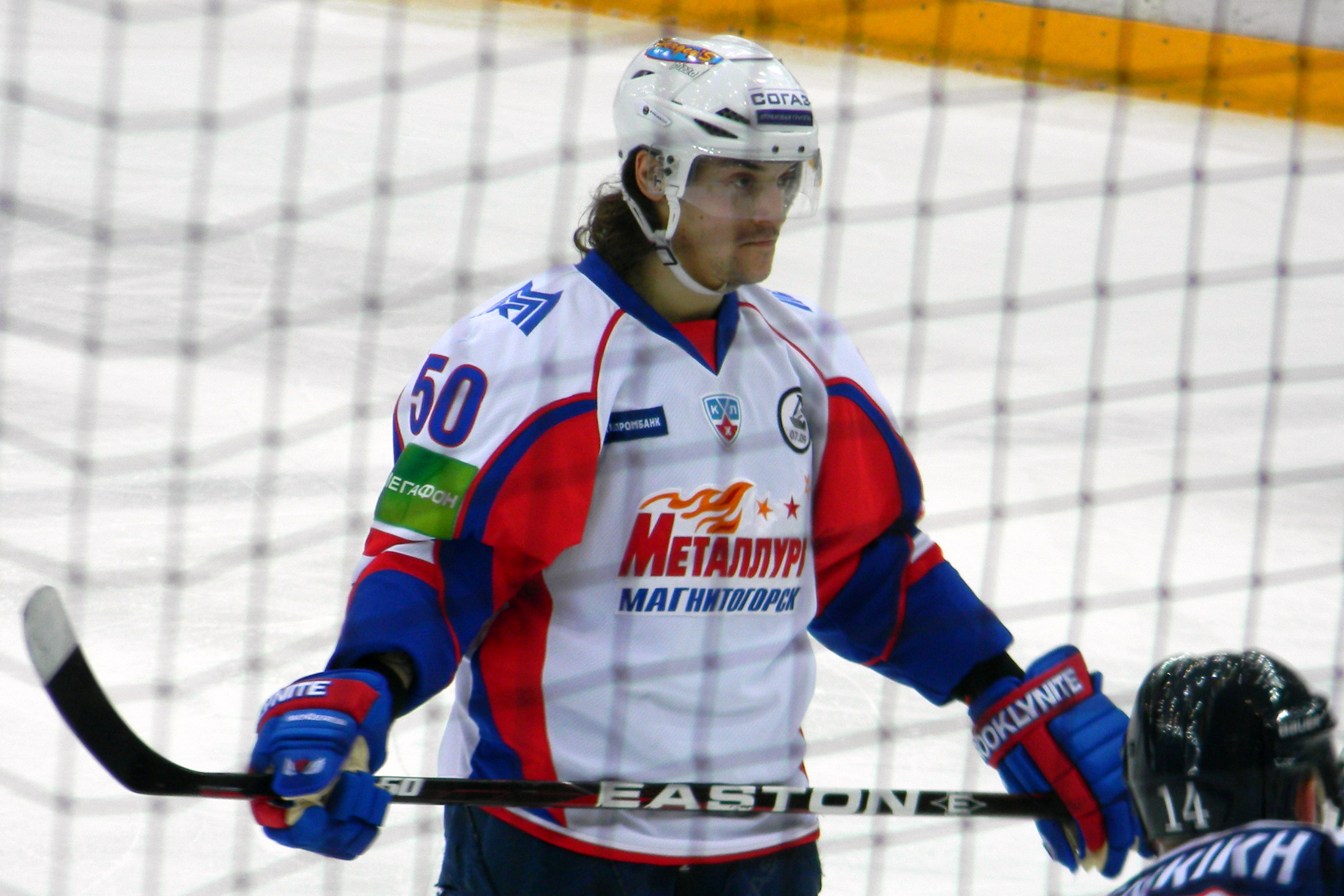 Juhamatti Aaltonen, an ice-hockey player from Metallurg Magnitogorsk in the game against Torpedo Nizhny Novgorod on 16th December, 2012